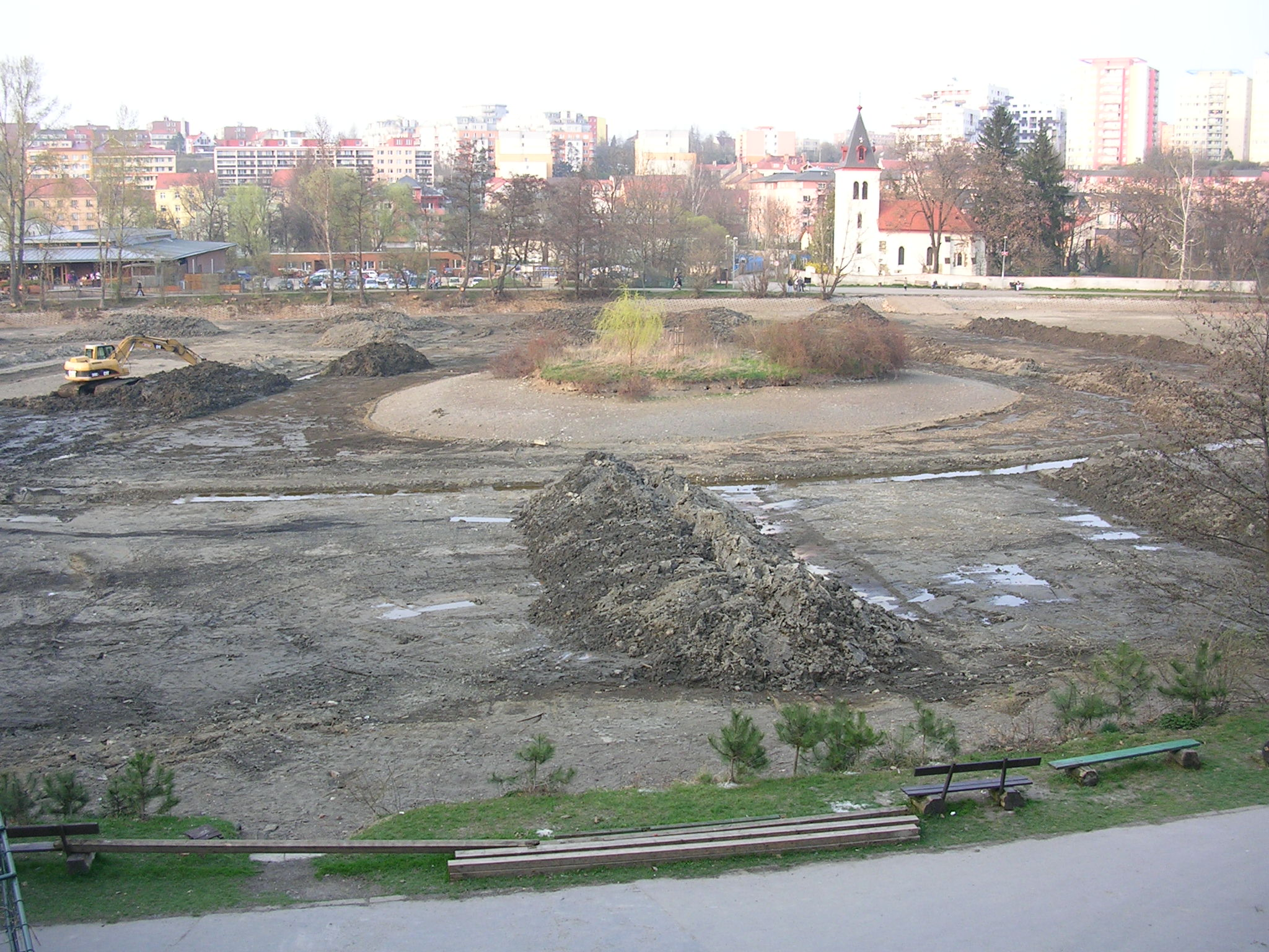 Záběhlice, Prague, the Czech Republic.